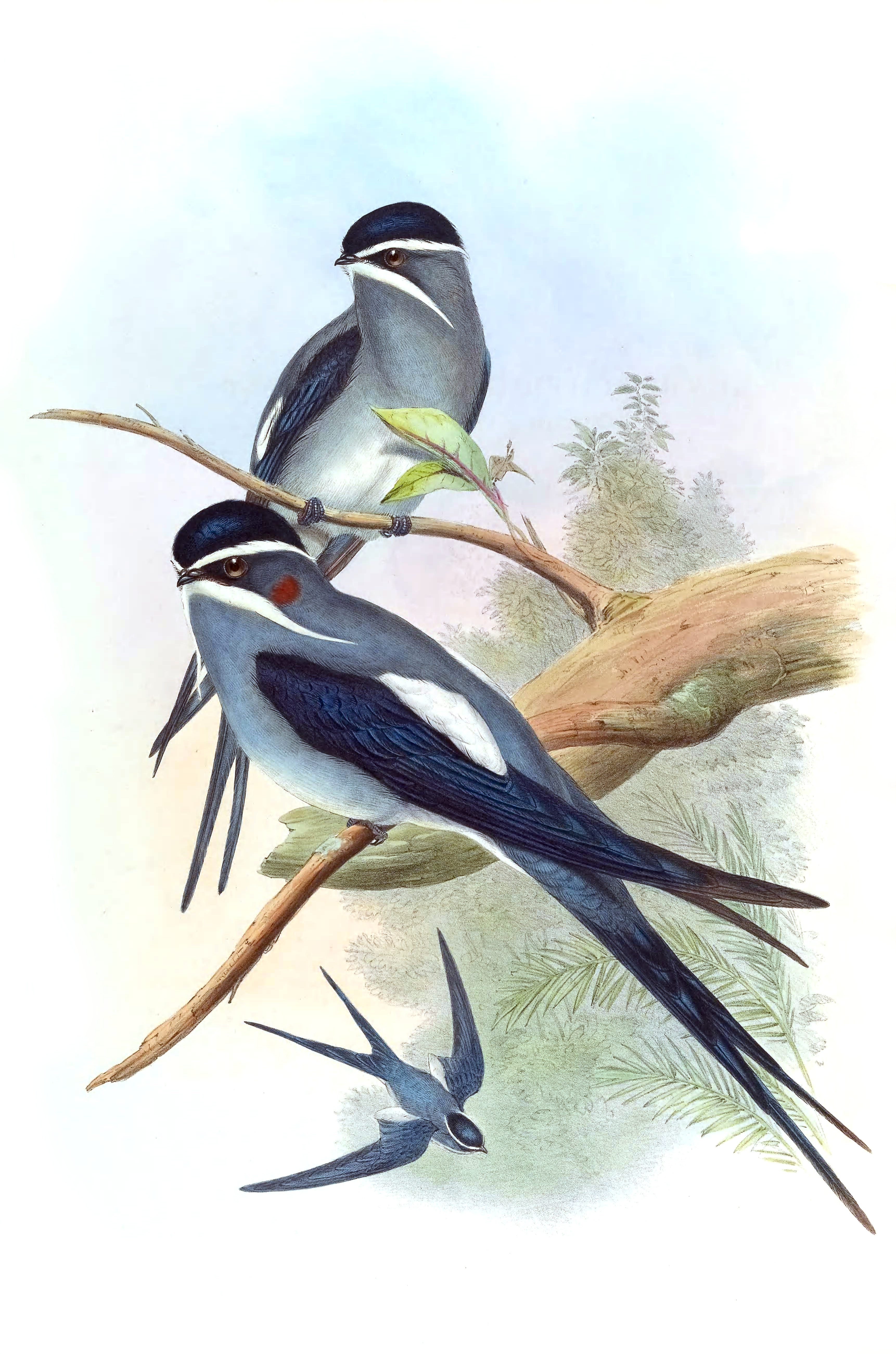 Dendrochelidon mystaceus = Hemiprocne mystacea